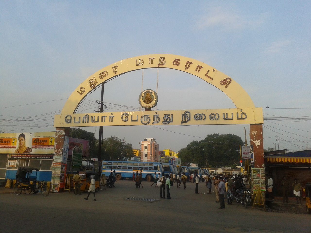 It is one of the important bus stand in madurai city.